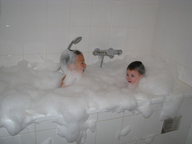 Two children enjoying a bubble bath